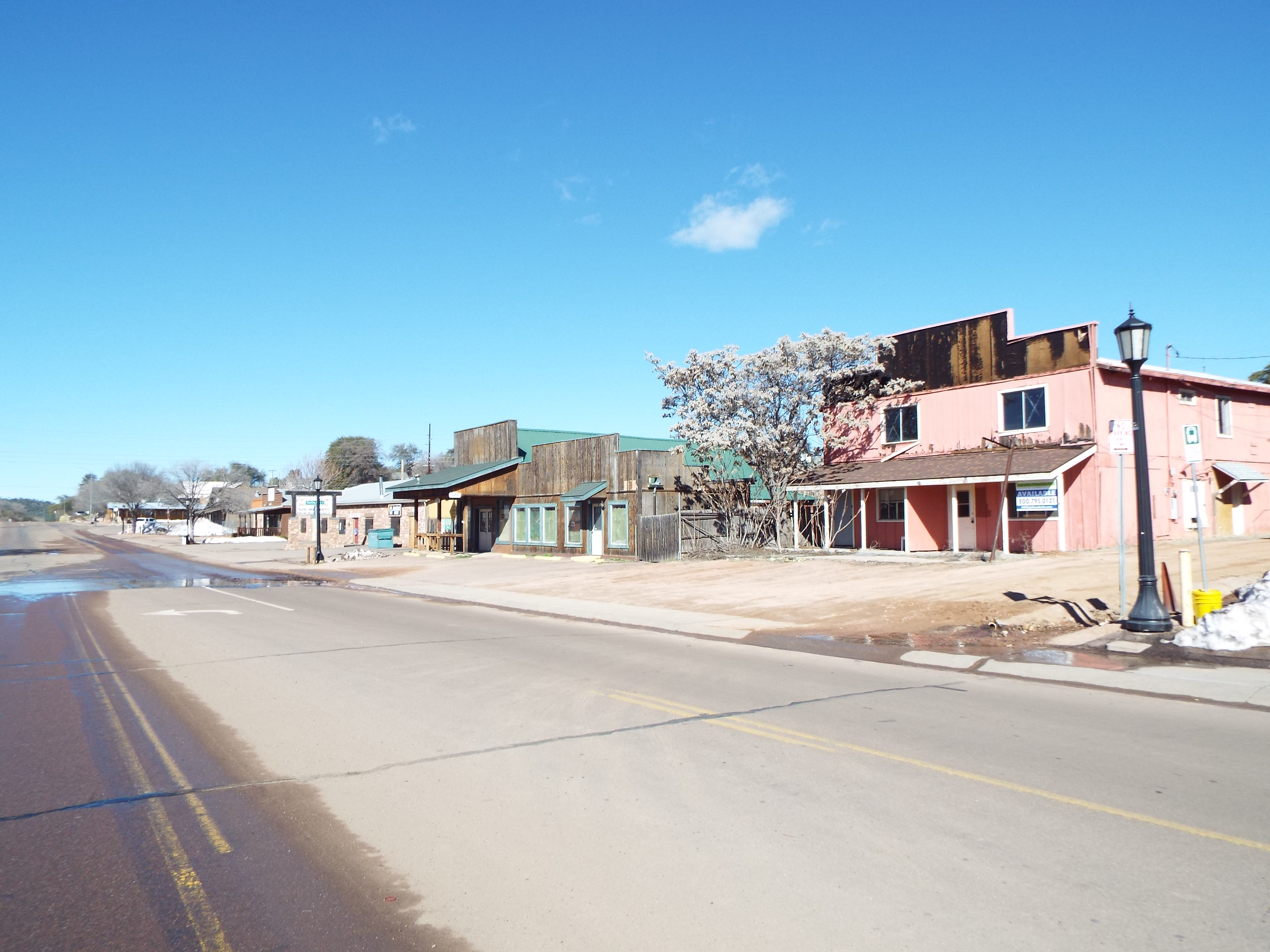 Historic main St.in Payson, Az